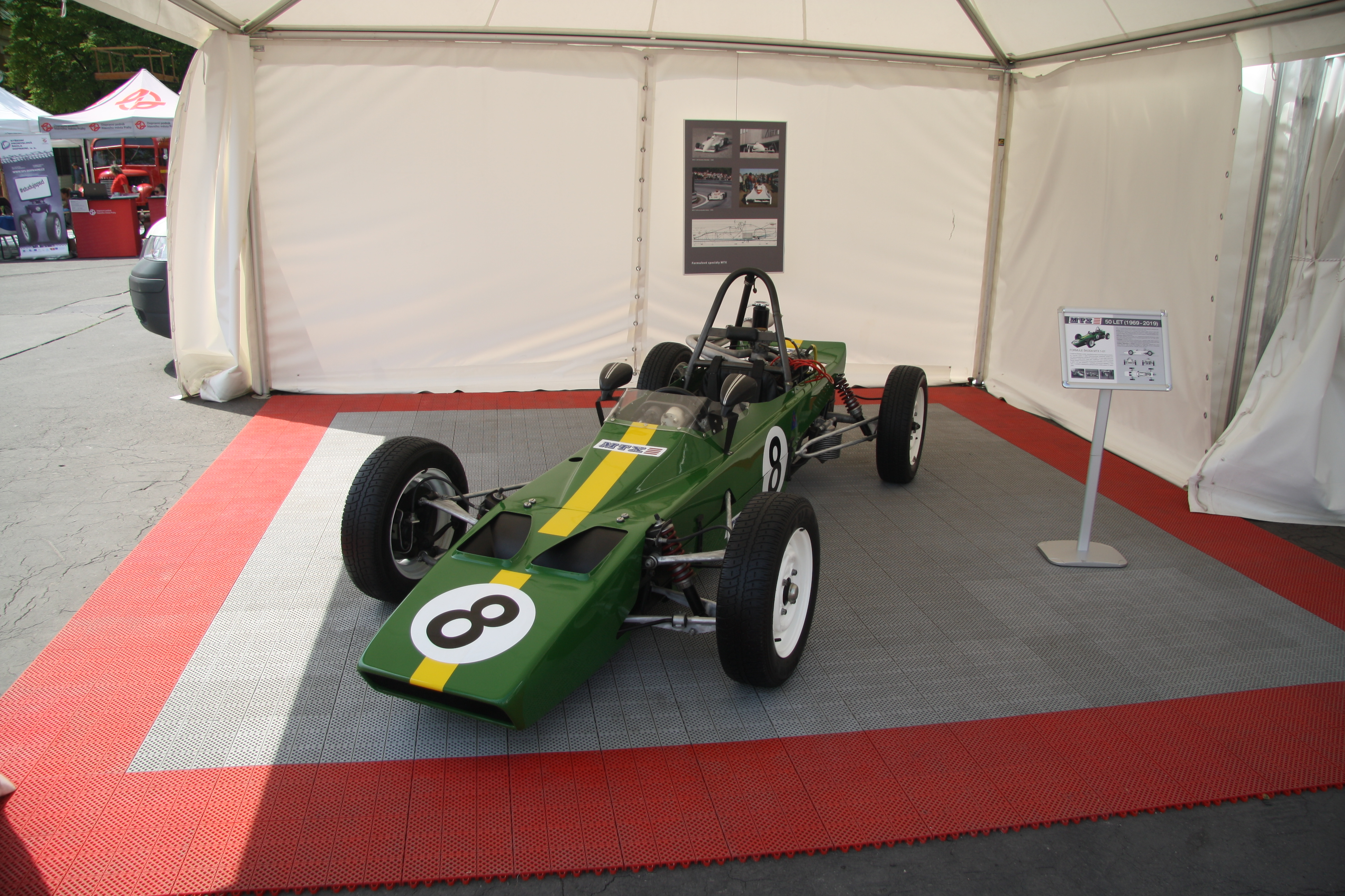 Škoda MTX 1-01 at Legendy 2018 in Prague.